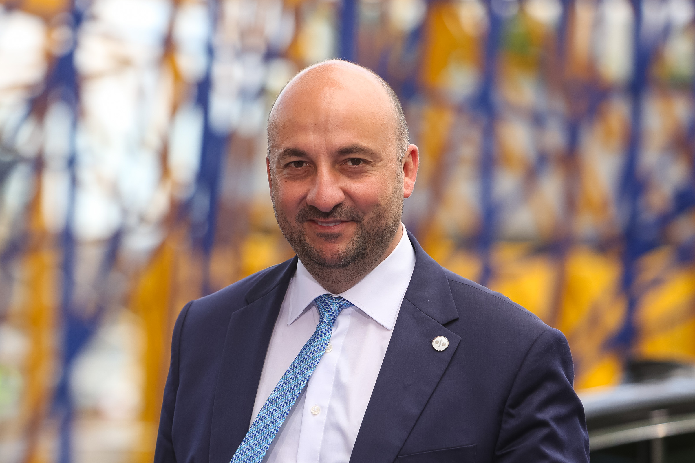 Etienne Schneider, Vice Prime Minister, Minister of Internal Security, Ministry of Internal Security, Luxembourg